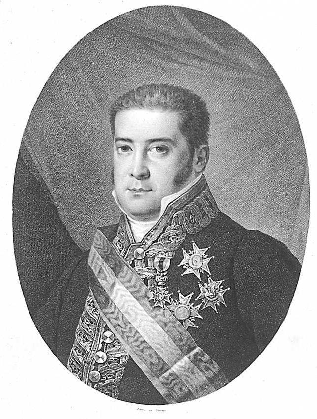 Spanish Politician Luis López Ballesteros